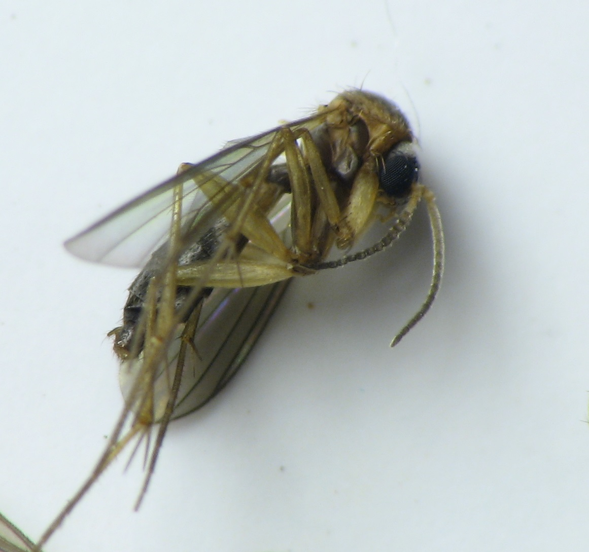 Phronia male (3-4 mm) found in Jack-in-the-pulpit. Pennypack Restoration Trust, Montgomery County, Pennsylvania, USA.